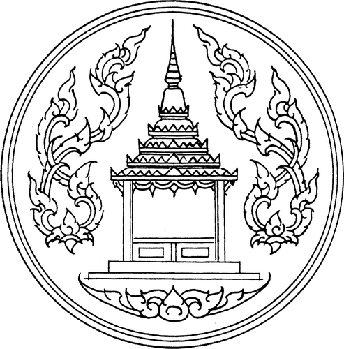 Provincial seal of Uttaradit province.